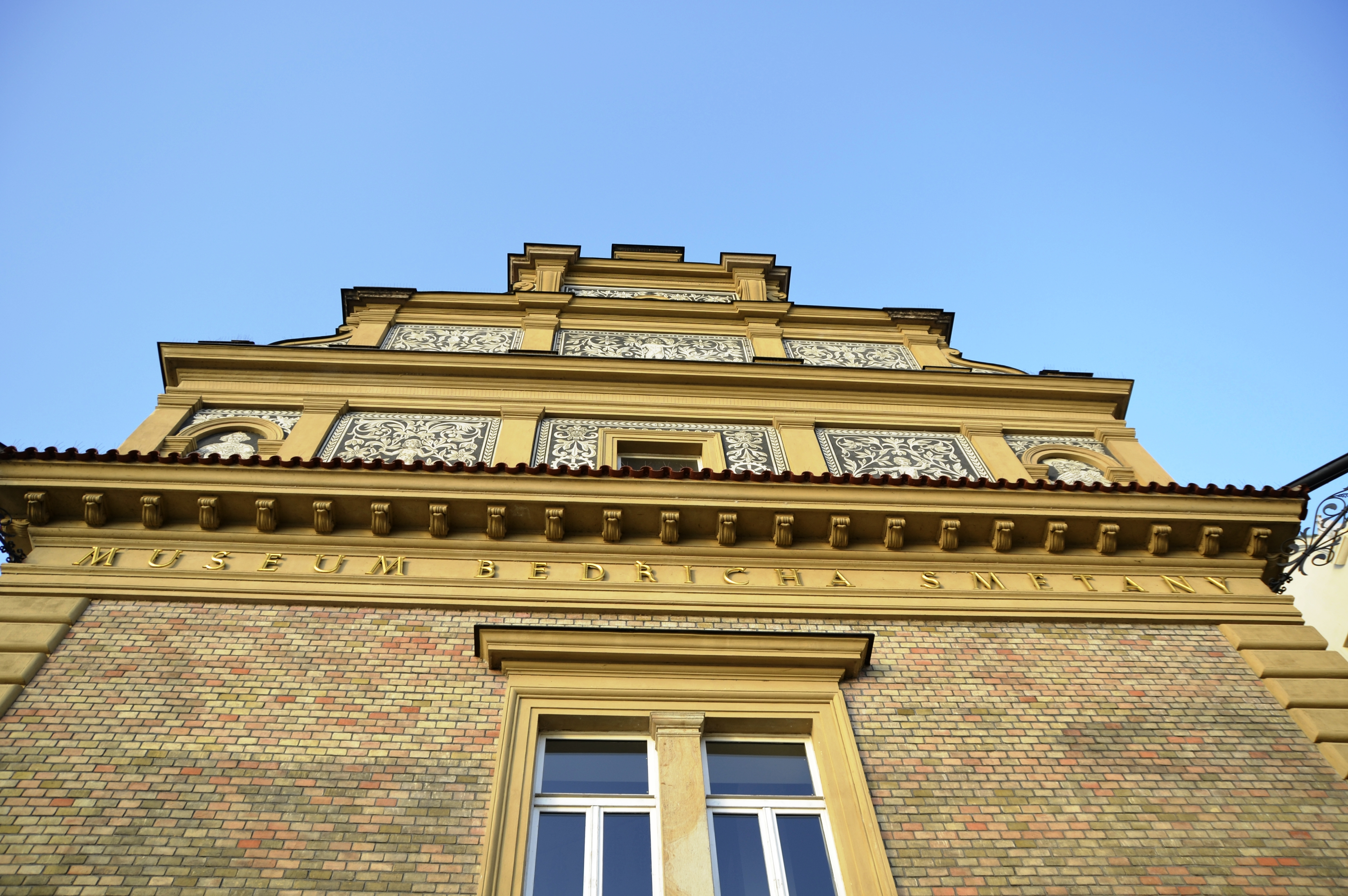 Bedřich Smetana Museum in Prague, 2012.